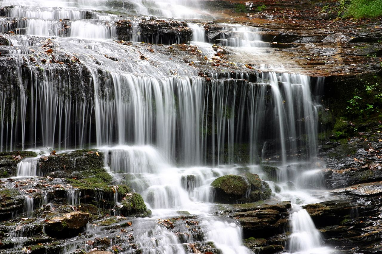 Pearson's Falls on the Pacolet river near Saluda. Polk County, North Carolina, USA.